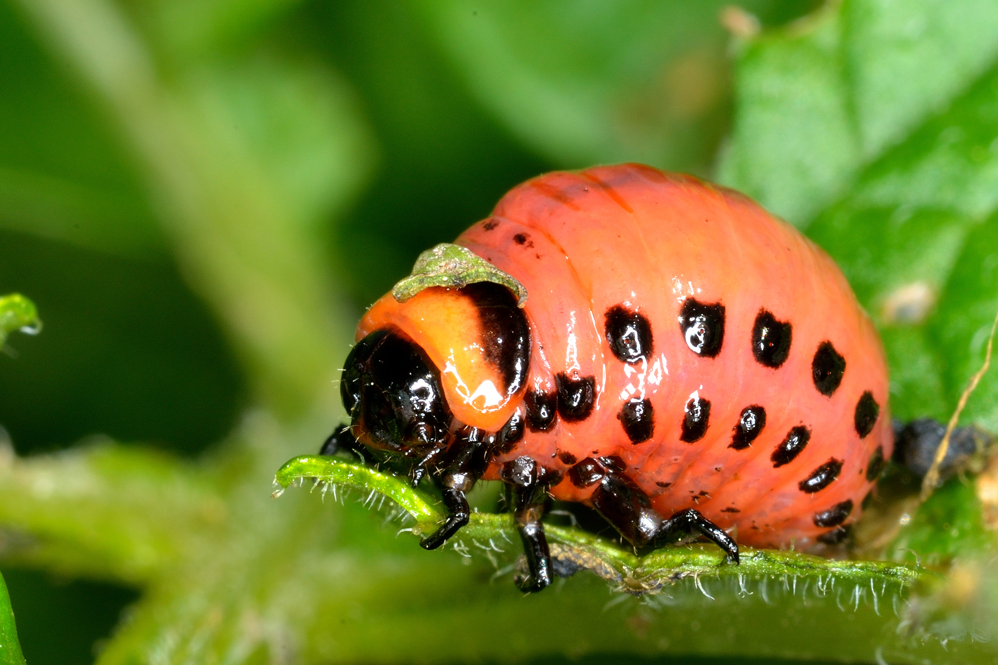 Colorado potato beetle larva (Leptinotarsa decemlineata) eating potato leaves.